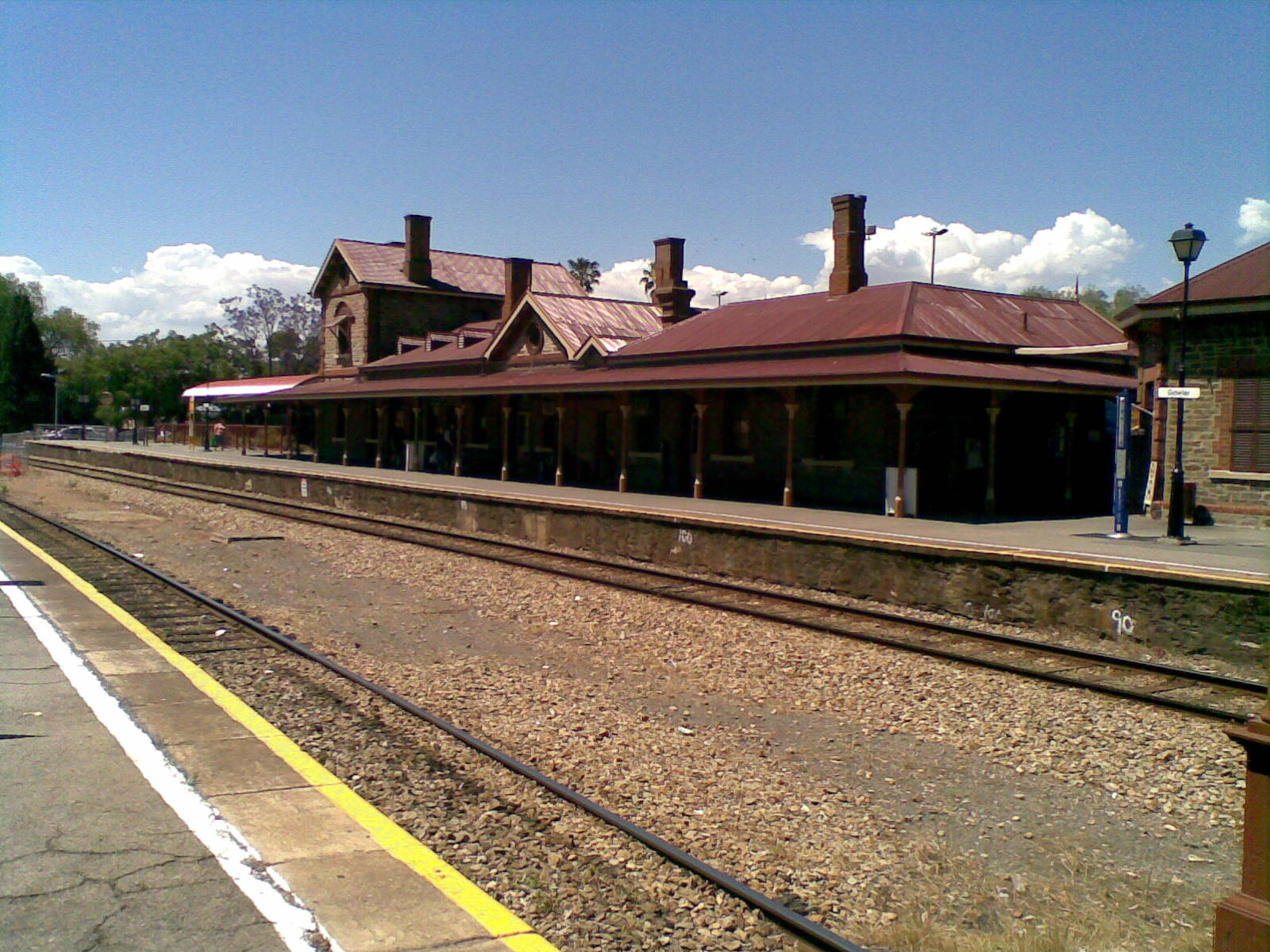 Gawler Railway Station in November 2007.